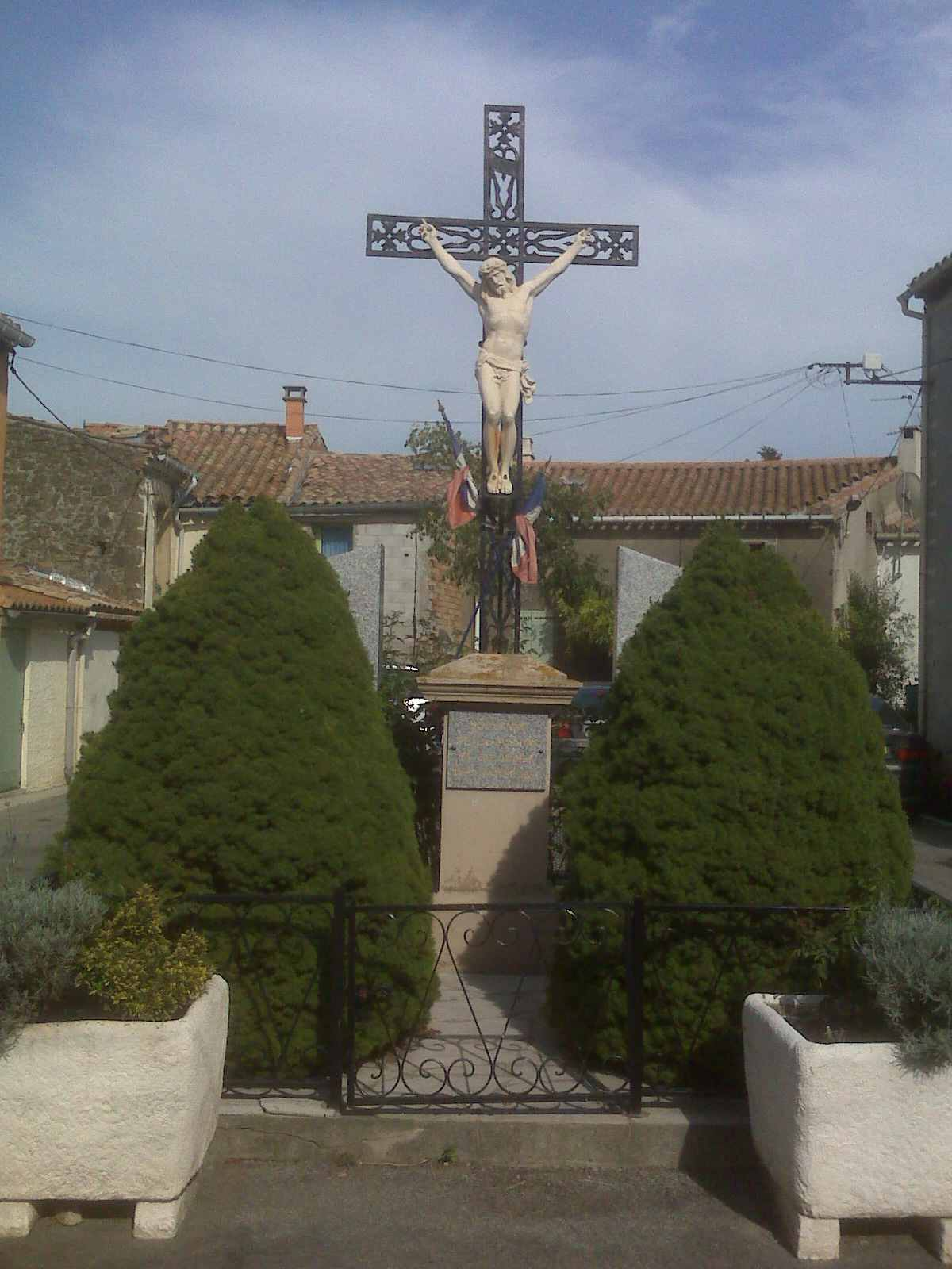 Brezilihac War Memorial